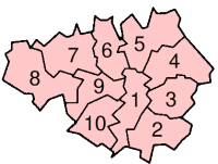 A map of Greater Manchester, with each metropolitan borough numbered. Greater Manchester is a metropolitan county in North West England. The numbers correspond to the following boroughs: City of Manchester Stockport Tameside Oldham Rochdale Bury Bolton Wigan City of Salford Trafford